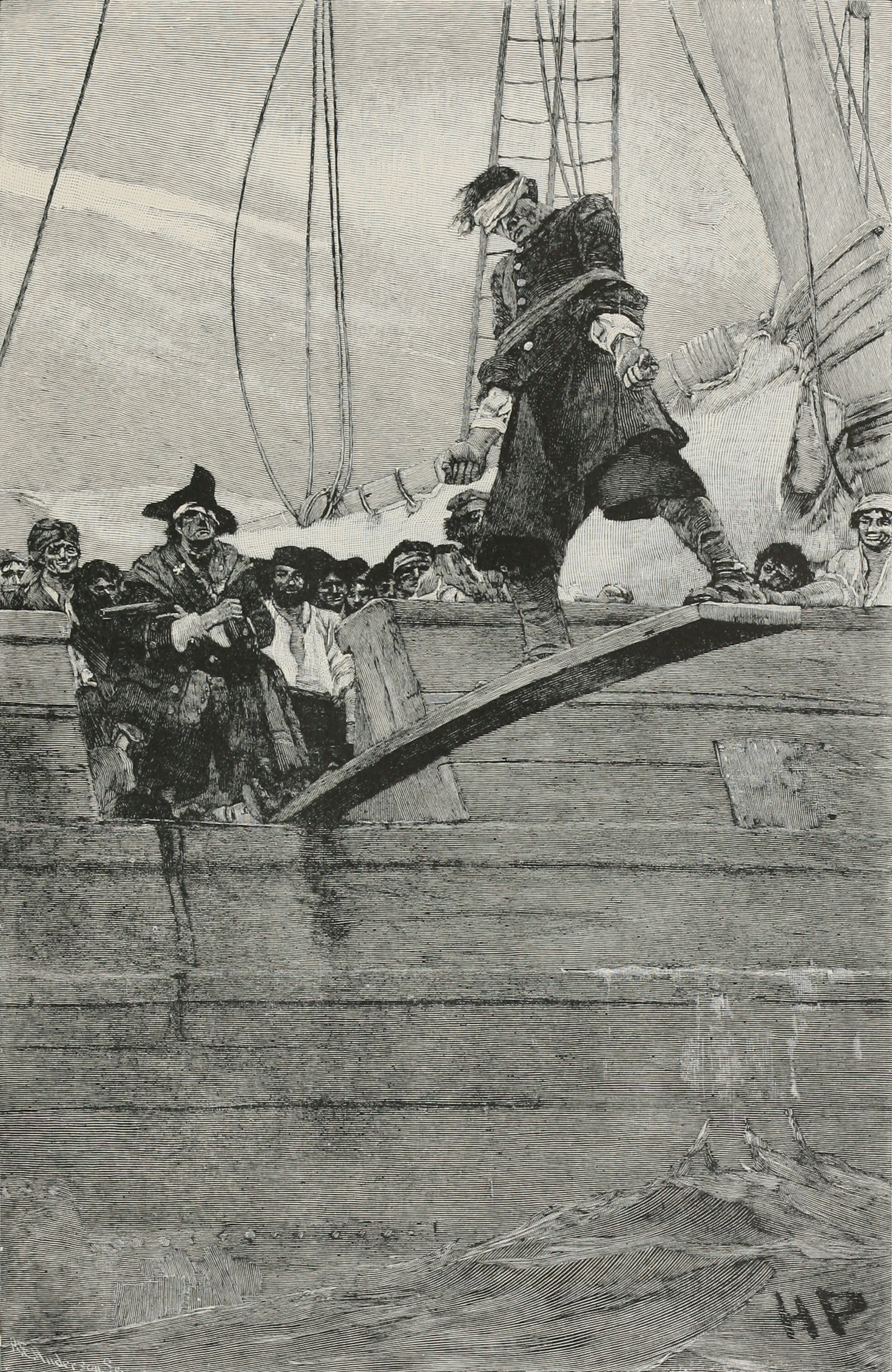 Walking the Plank: this was originally published in Pyle, Howard (August–September 1887). "Buccaneers and Marooners of the Spanish Main". Harper's Magazine.